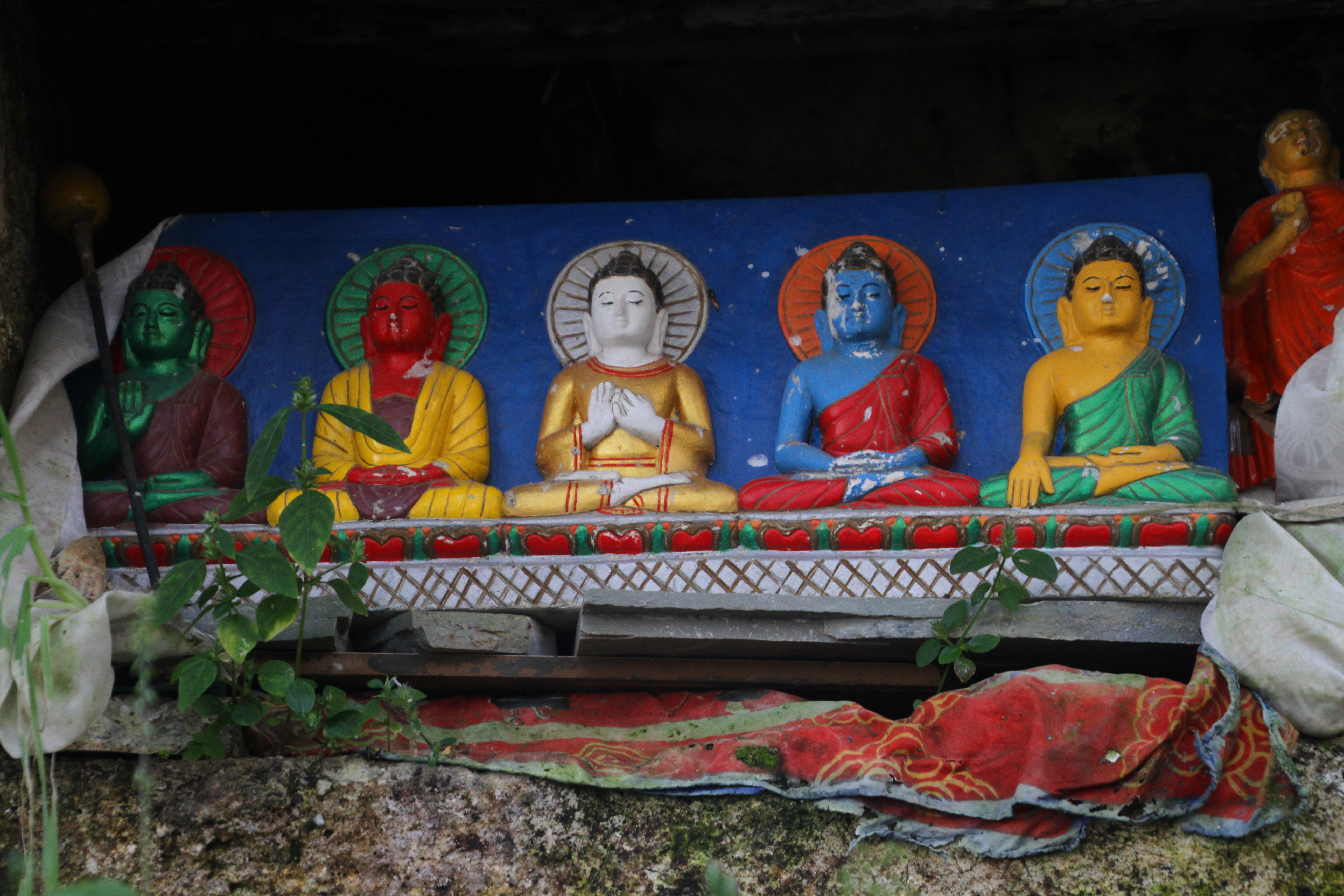 Kora in Dharamsala, Himachal Pradesh, India